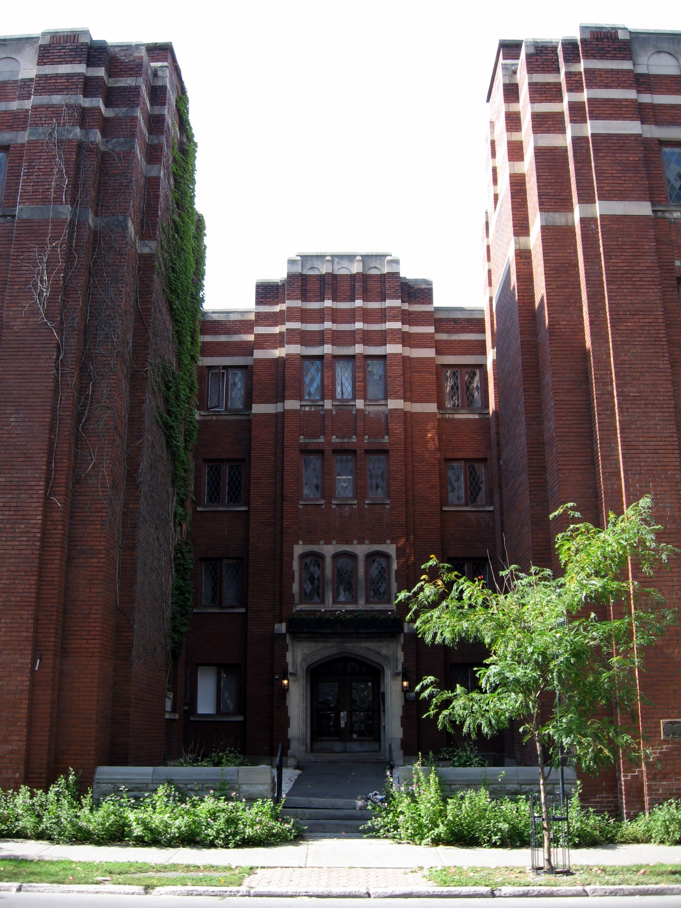 The Duncannon, an apartment building in Ottawa, Canada.